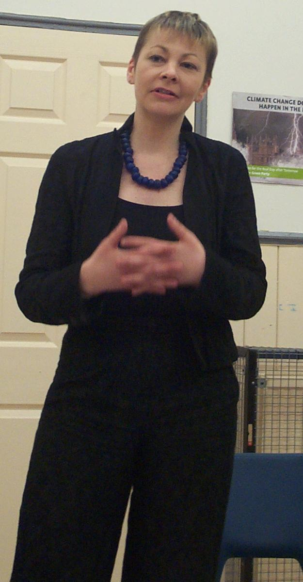 Caroline Lucas MEP speaking in Oxford, 2006-04-11. Copyright © 2006 Kaihsu Tai.